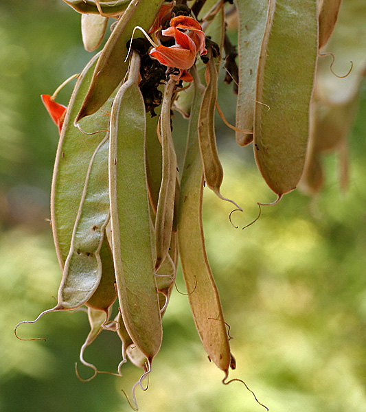 Butea monosperma - Palash, Dhak, Flame of the Forest, Bengal kino, Bastartd teak, Tesu, Kesu, Parrot Tree or Khakharo/ Keshudo in Mahavir Harina Vanasthali National Park, Hyderabad, India.